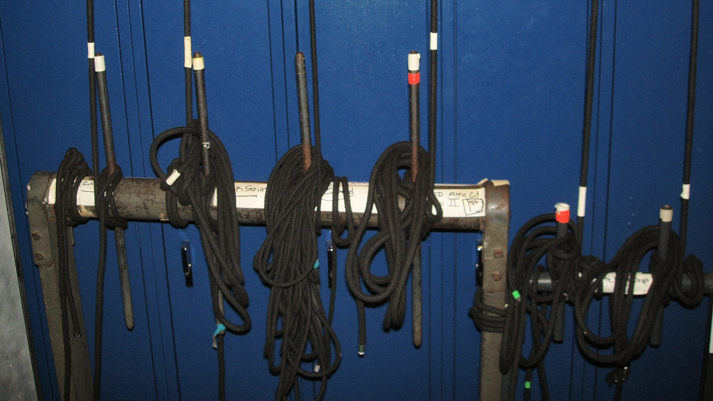 Picture of a small mobile pinrail.